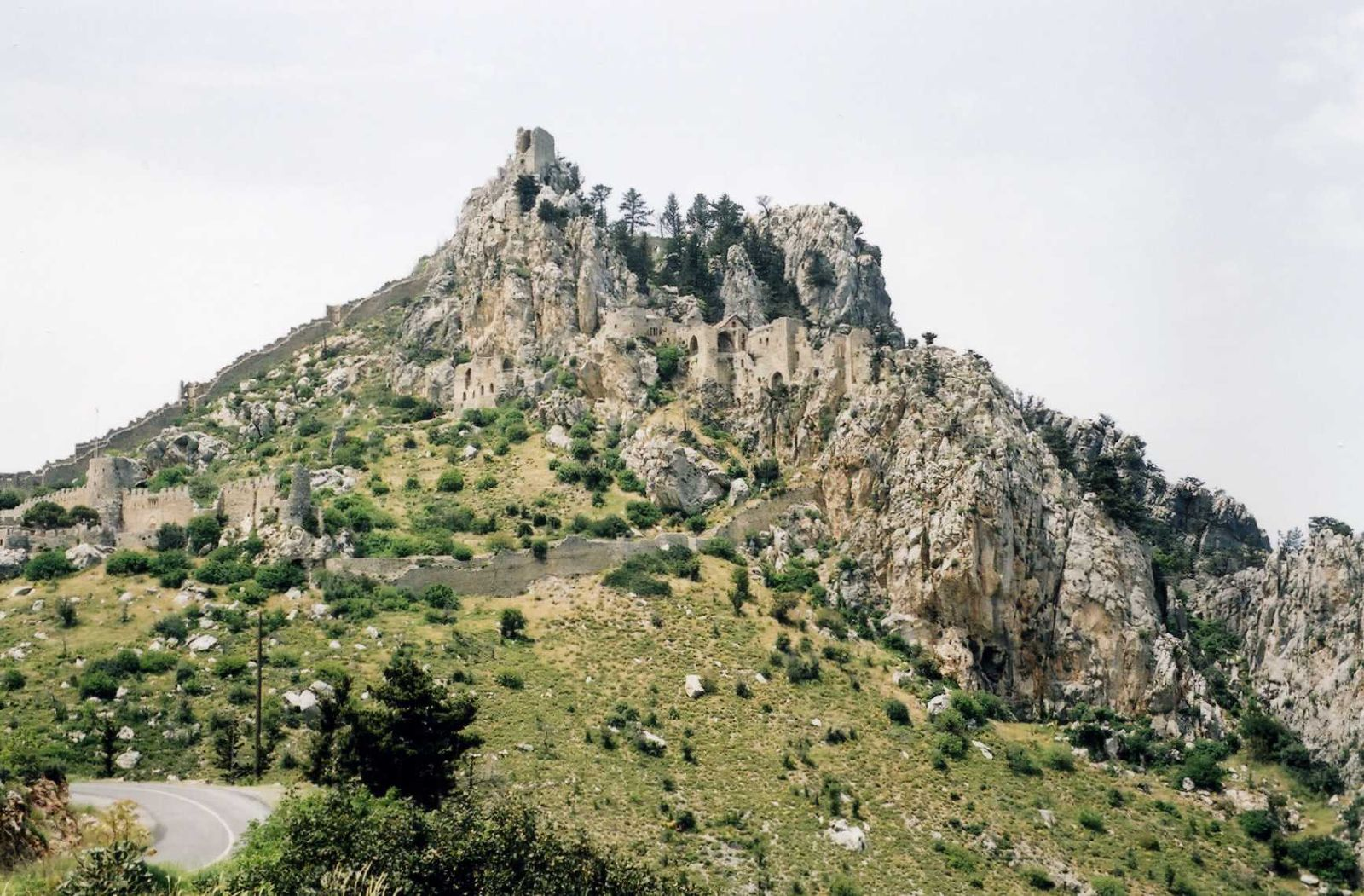 The Castle is named after a monk called Hilarion. The site overlooks Girne (Kyrenia) and the surrounding land all the way to Nicosia and out to sea.It was expanded in the 12th century and became neglected by the Venetians. It is very strategic, even today and Turkey can be seen from here in fine visibility.The castle is open daily. This is a 35mm photo shot on 100 ISO film.